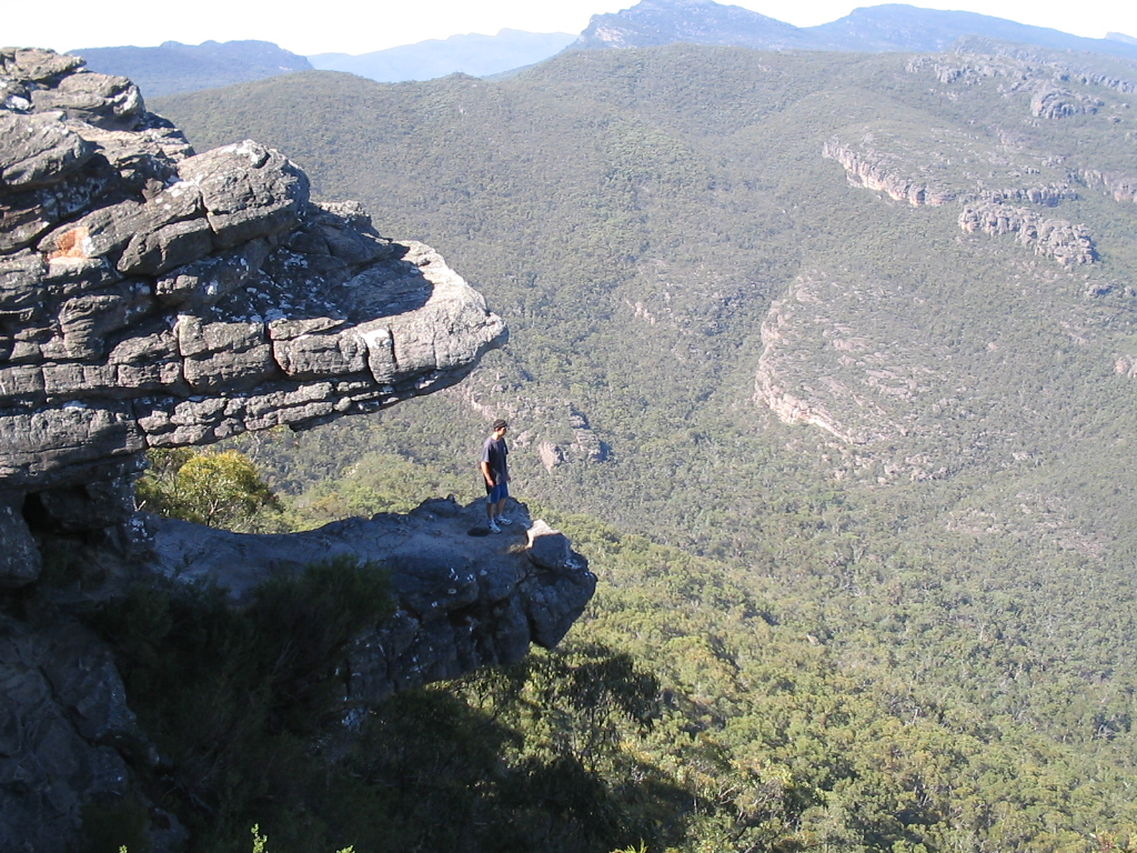 An intrepid hiker tests his nerve on the Balconies, formerly known as the "Jaws of Death" - Grampians National Park, Victoria, Australia